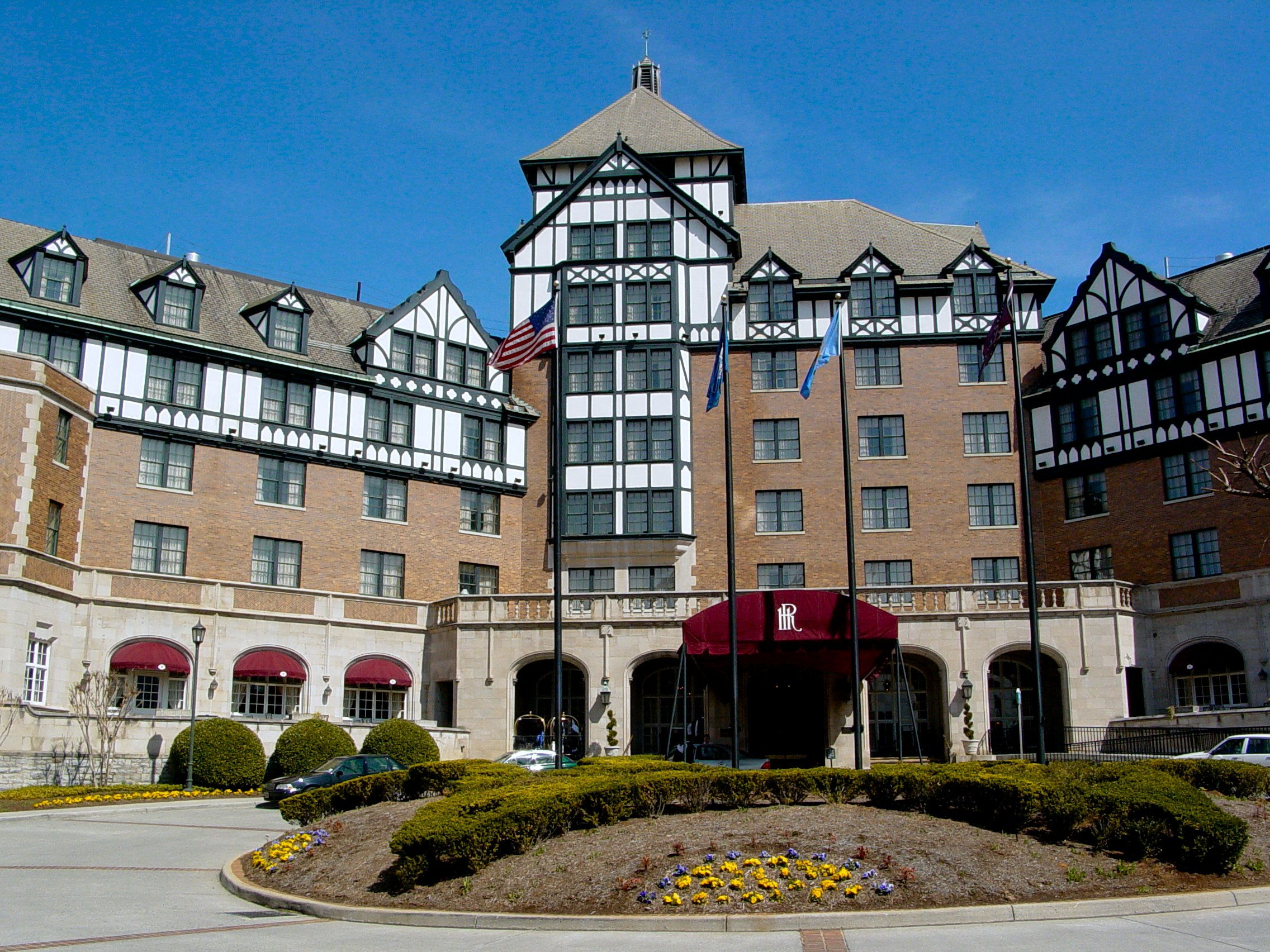 The Hotel Roanoke in Roanoke, Virginia.